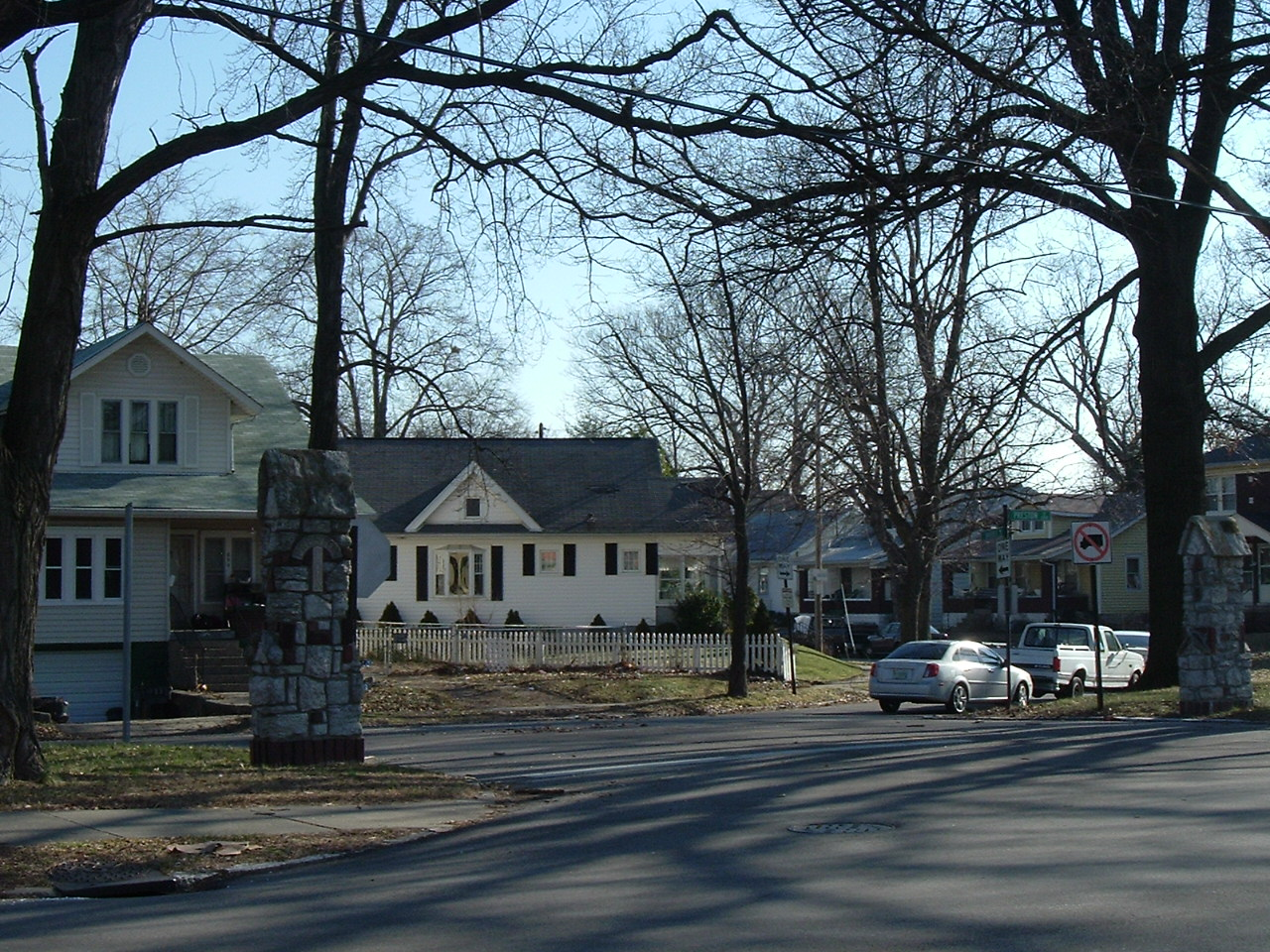 Meriwether neigbhd. LOUKY